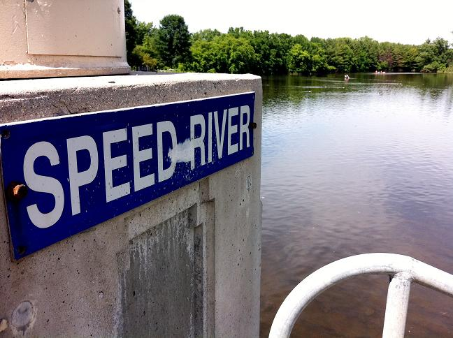 Photograph of the Speed River from the Riverside Park in Guelph, ON.